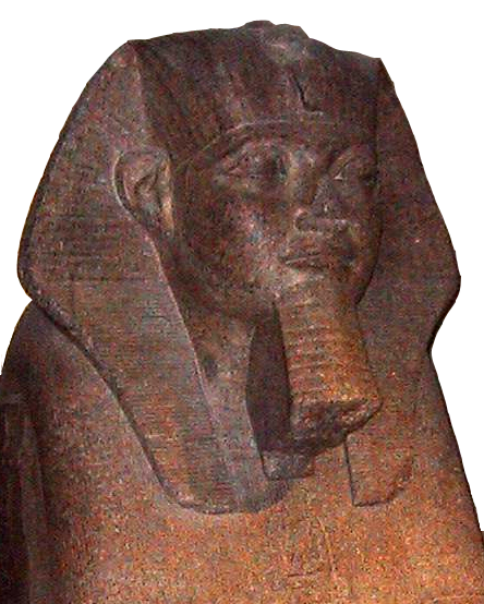 Close-up of sphinx bearing the name of Amenemhat II, along with several successors. This *may* have been originally intended for Amenemhat II. Ultimately derived from another image from Wikimedia Commons, with its contrast enhanced and cropped from original full image.